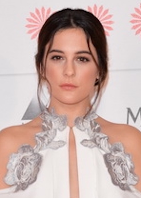 LONDON, ENGLAND - DECEMBER 07: Phoebe Fox attends the Moet British Independent Film Awards 2014 at Old Billingsgate Market on December 7, 2014 in London, England. Photo by See Li